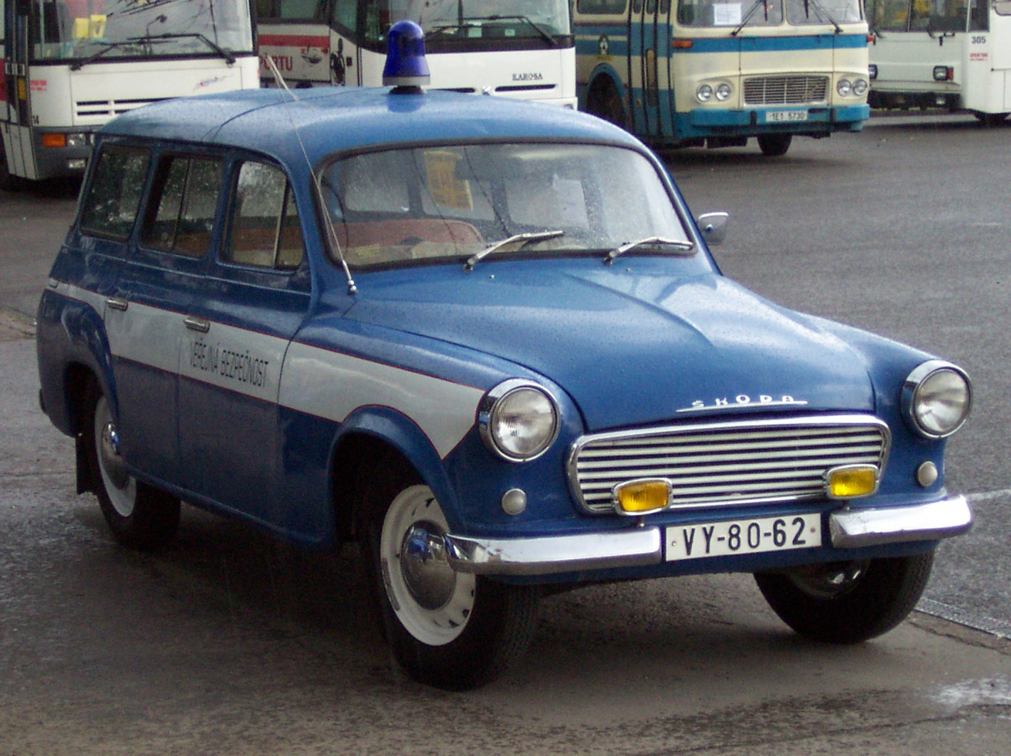 Historic Škoda Octavia 1202 police car (Veřejná bezpečnost - Public Security i.e. communist name for police) at the 55th anniversary of trolleybus transport in Pardubice